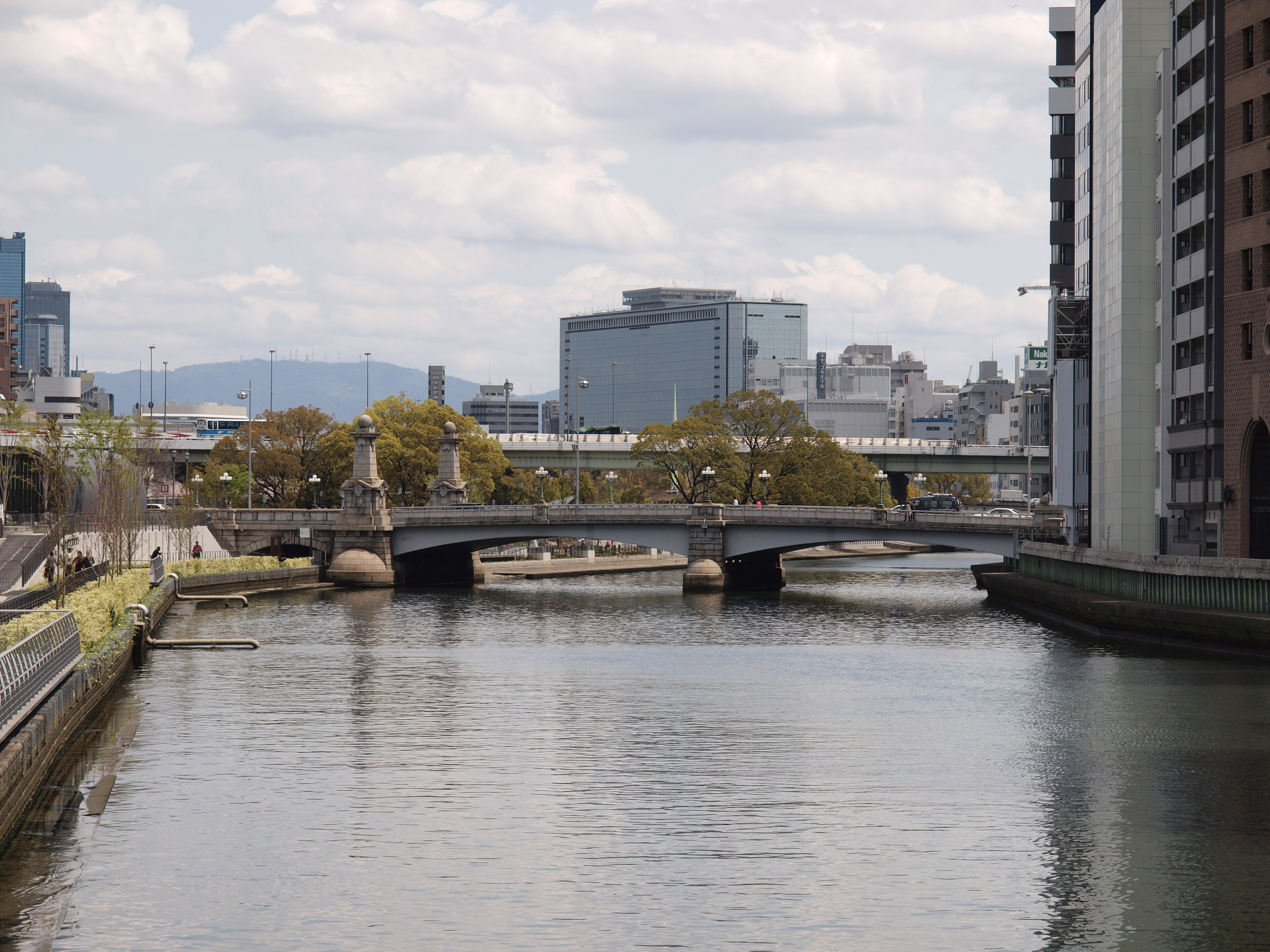 Naniwa-bashi (Bridge), Chuo-ku, Osaka